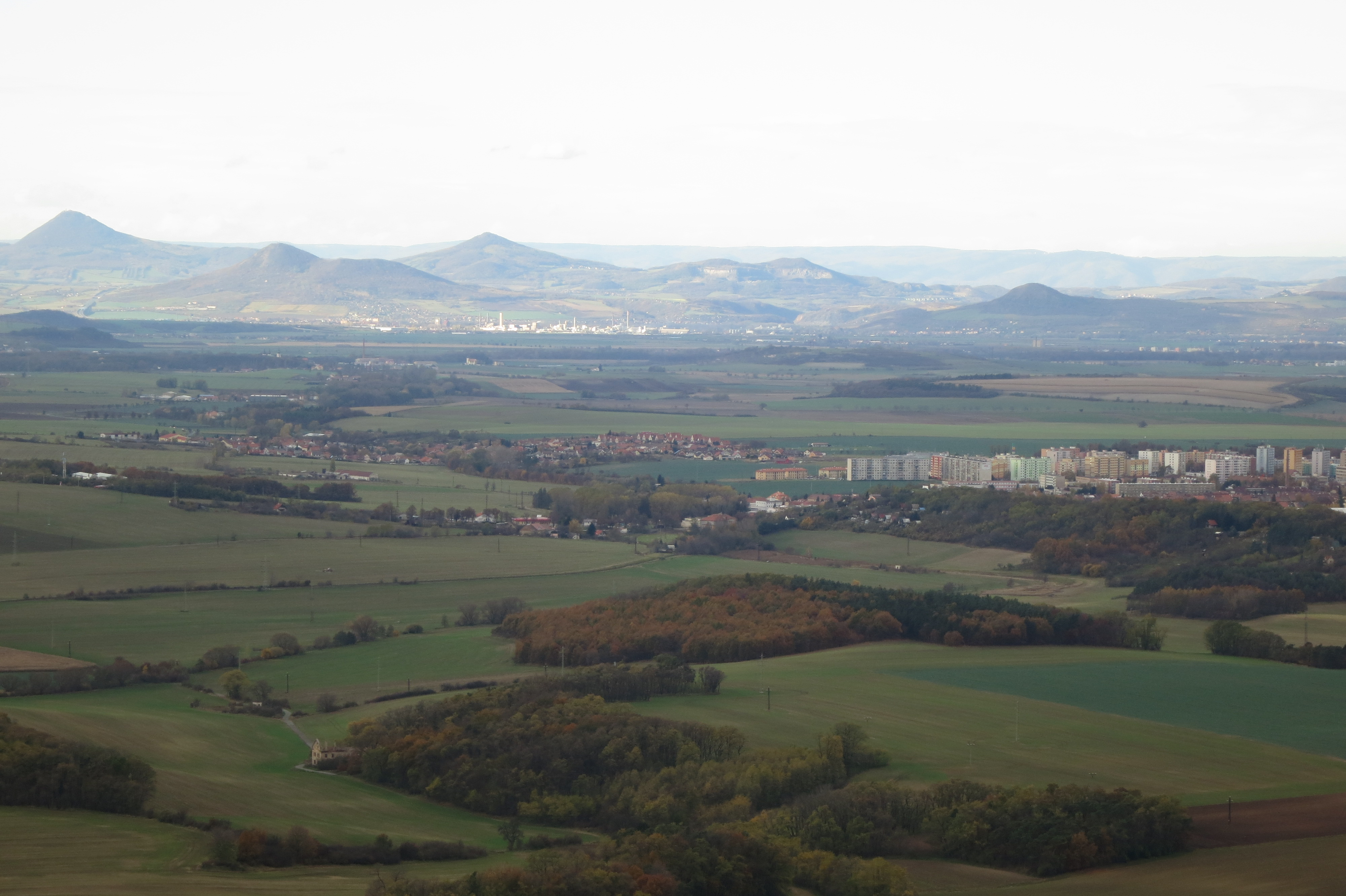 View from Říp hill (Roudnice Viewpoint) at Říp, Czech Republic.